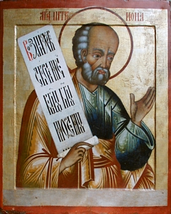 Prophet Jonah, Russian Orthodox icon from first quarter of 18-th cen.